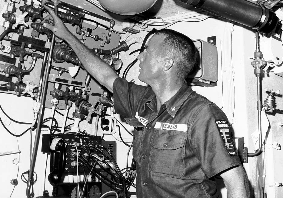 CDR. Malcolm Scott Carpenter in SEALAB II was both an aquanaut and astronaut.